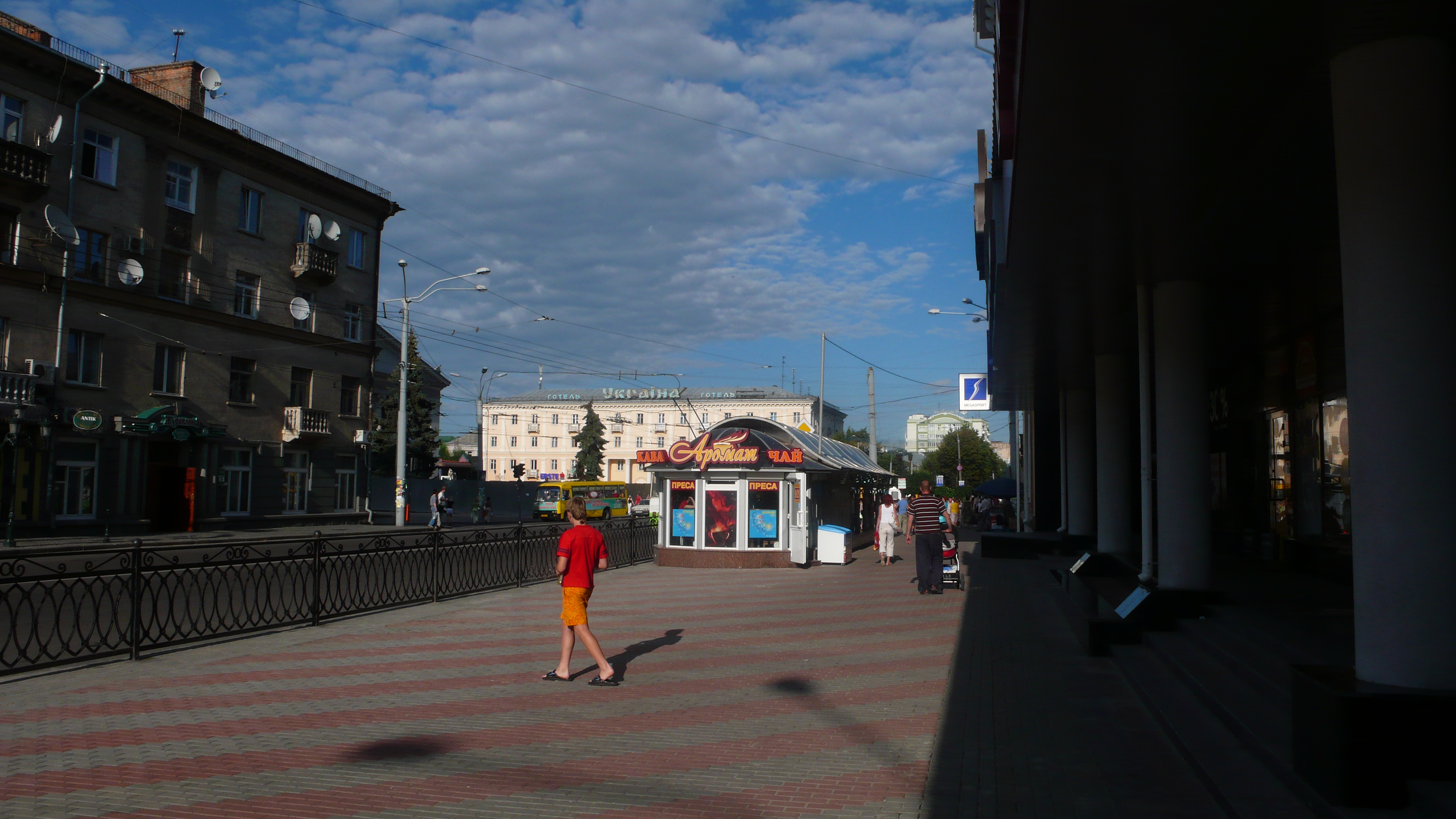 This is in Ukraine the city Rivne (Rovno in Russian).